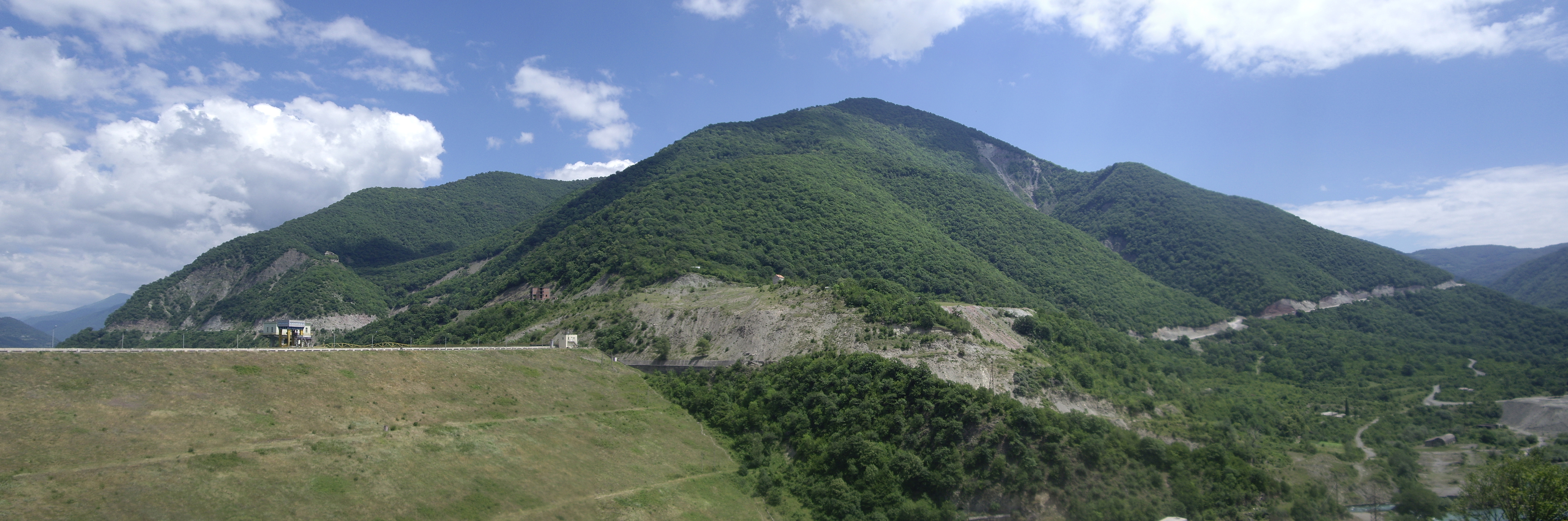 Keli fortress panorama